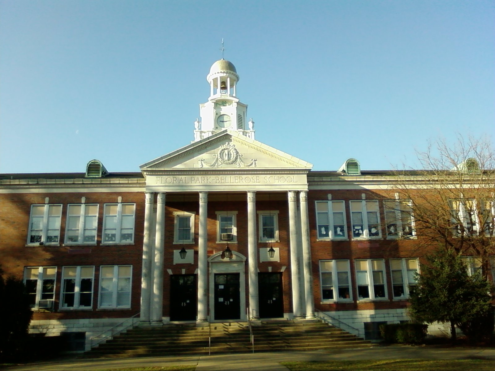 Floral Park - Belerose School